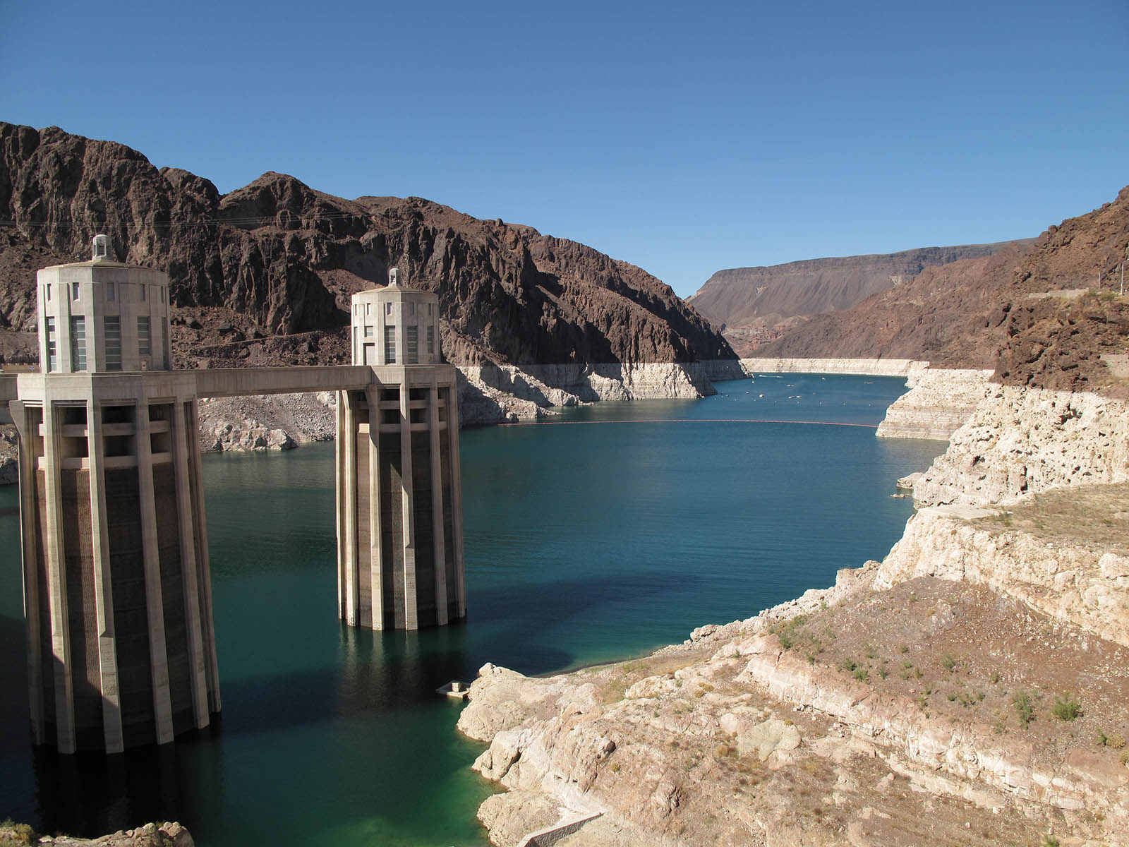 Lake Mead and Hoover Dam water intake towers, as seen from the Arizona side of Hoover Dam.